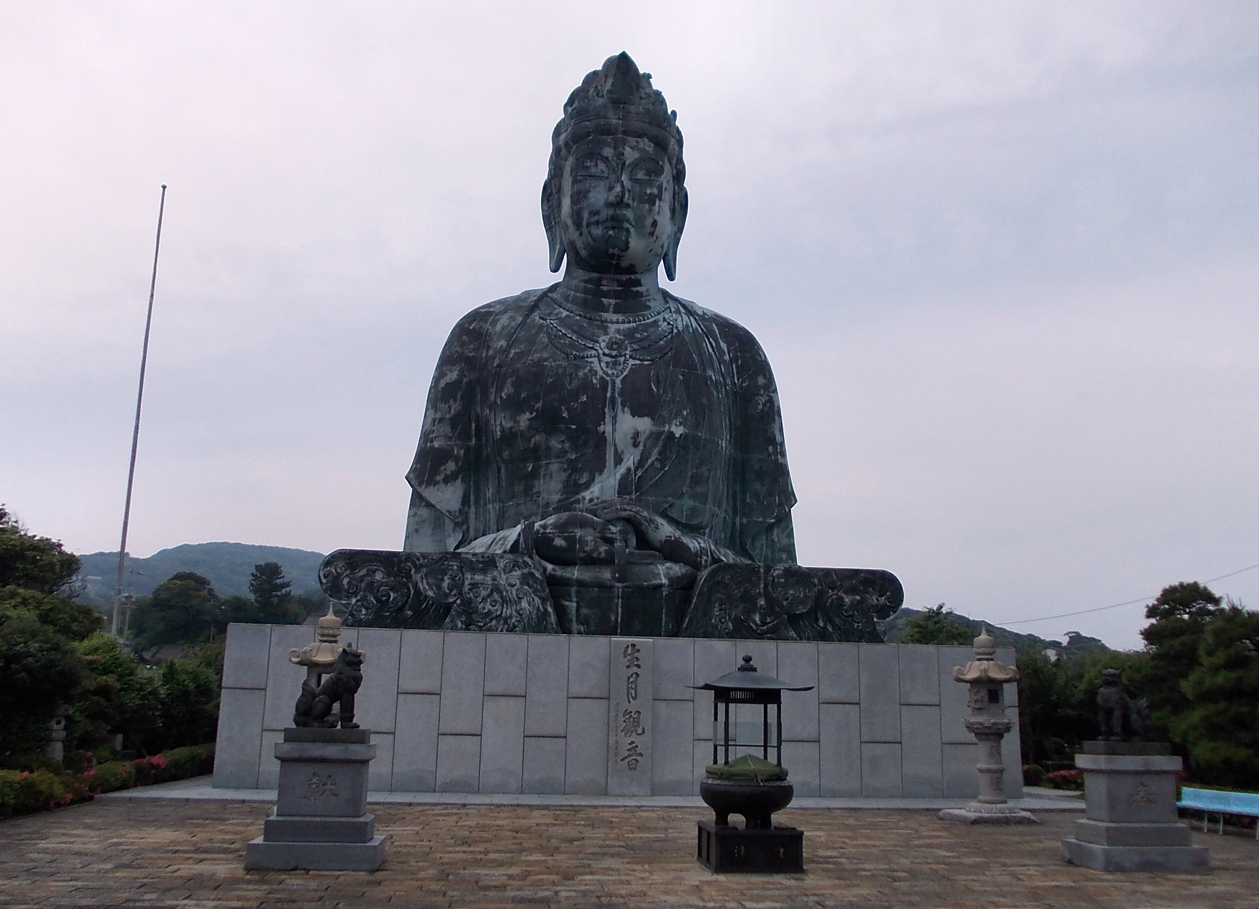 Ikitsuki Daigyoran Kannon Statue, Hirado City, Nagasaki, Japan